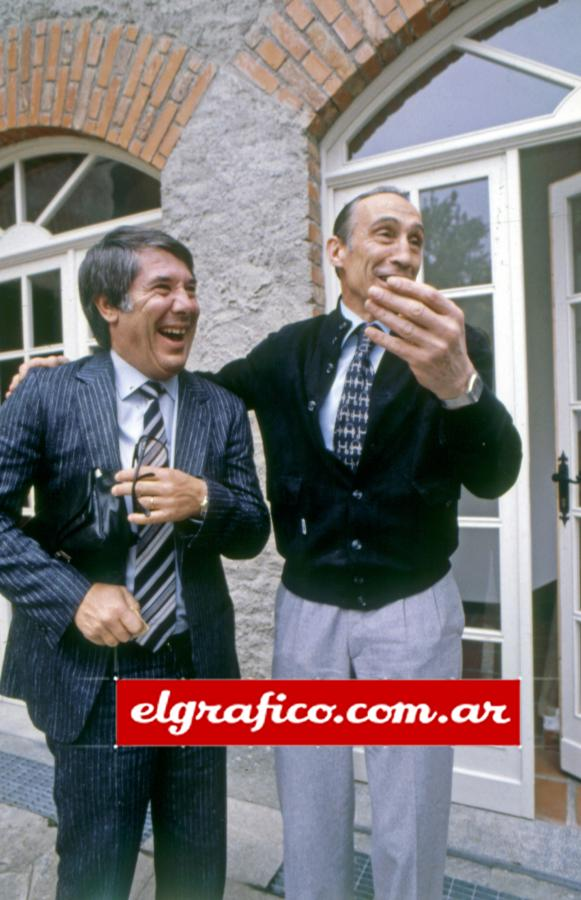 Enrique O. Sívori and Enzo Bearzot